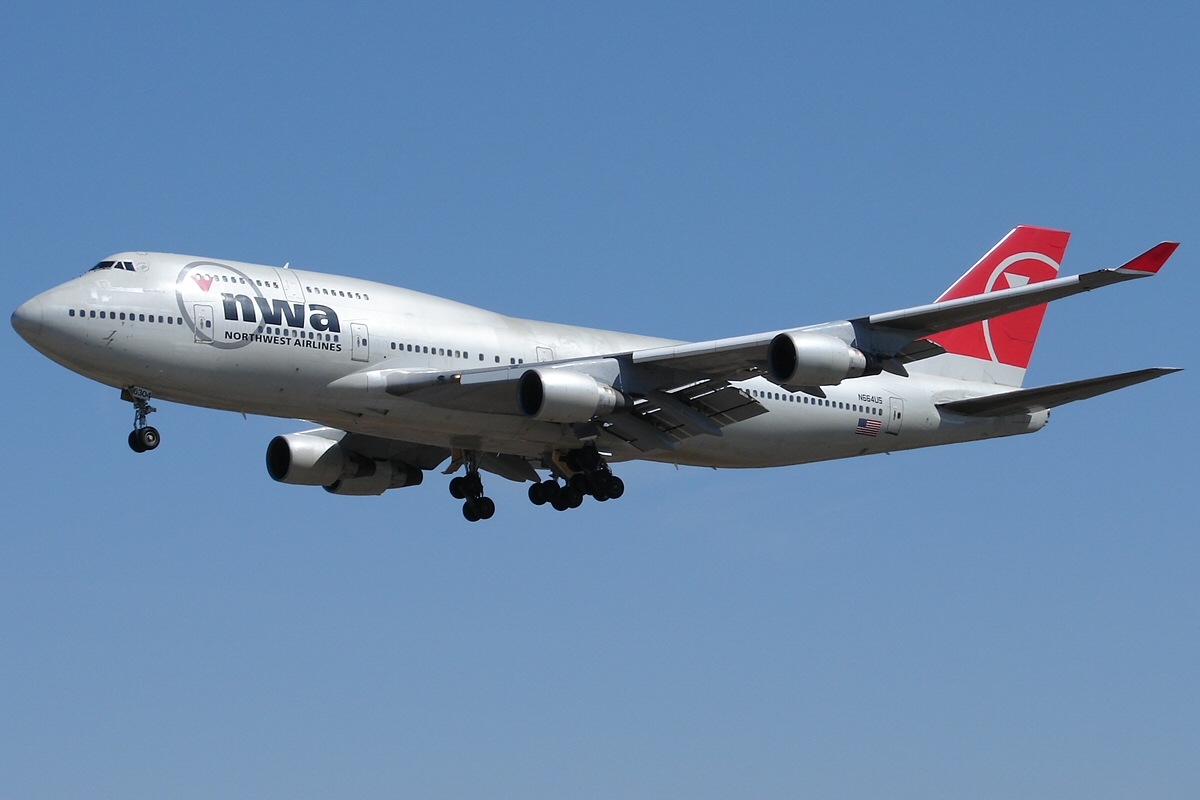 "Northwest 20" arriving from Tokyo. Very happy to have caught a NWA 747 before they all get a fresh coat of paint. Boeing 747-400 Northwest Airlines N664US. Manufactured in 1989.